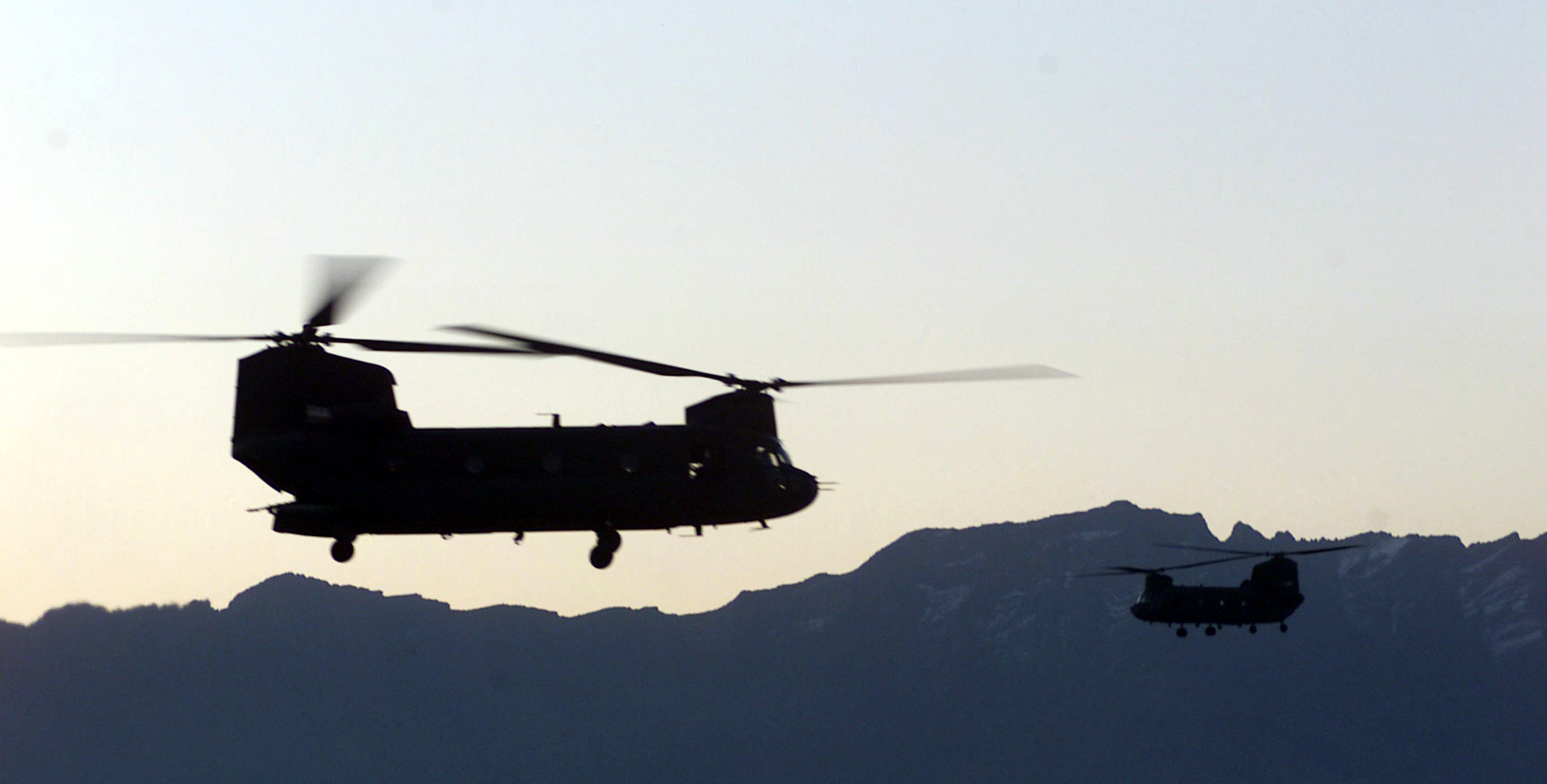 Ch-47 Chinook helicopters take off in the early morning in support of Operation Anaconda. The Chinooks were used for their superior lift and cargo capabilities, as well as their ability to operate well at the high altitudes required for the operation.